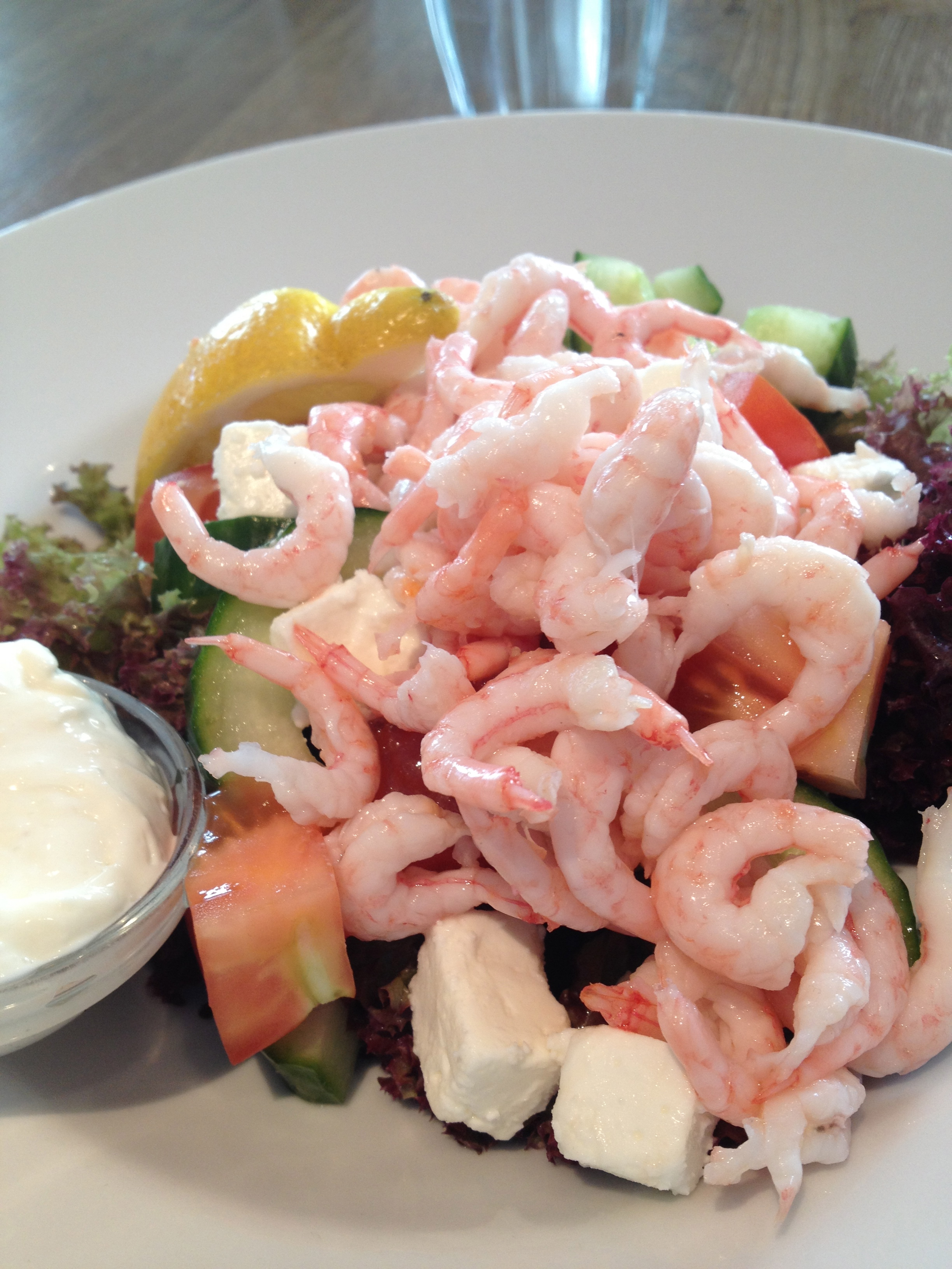 Shrimp Salad.